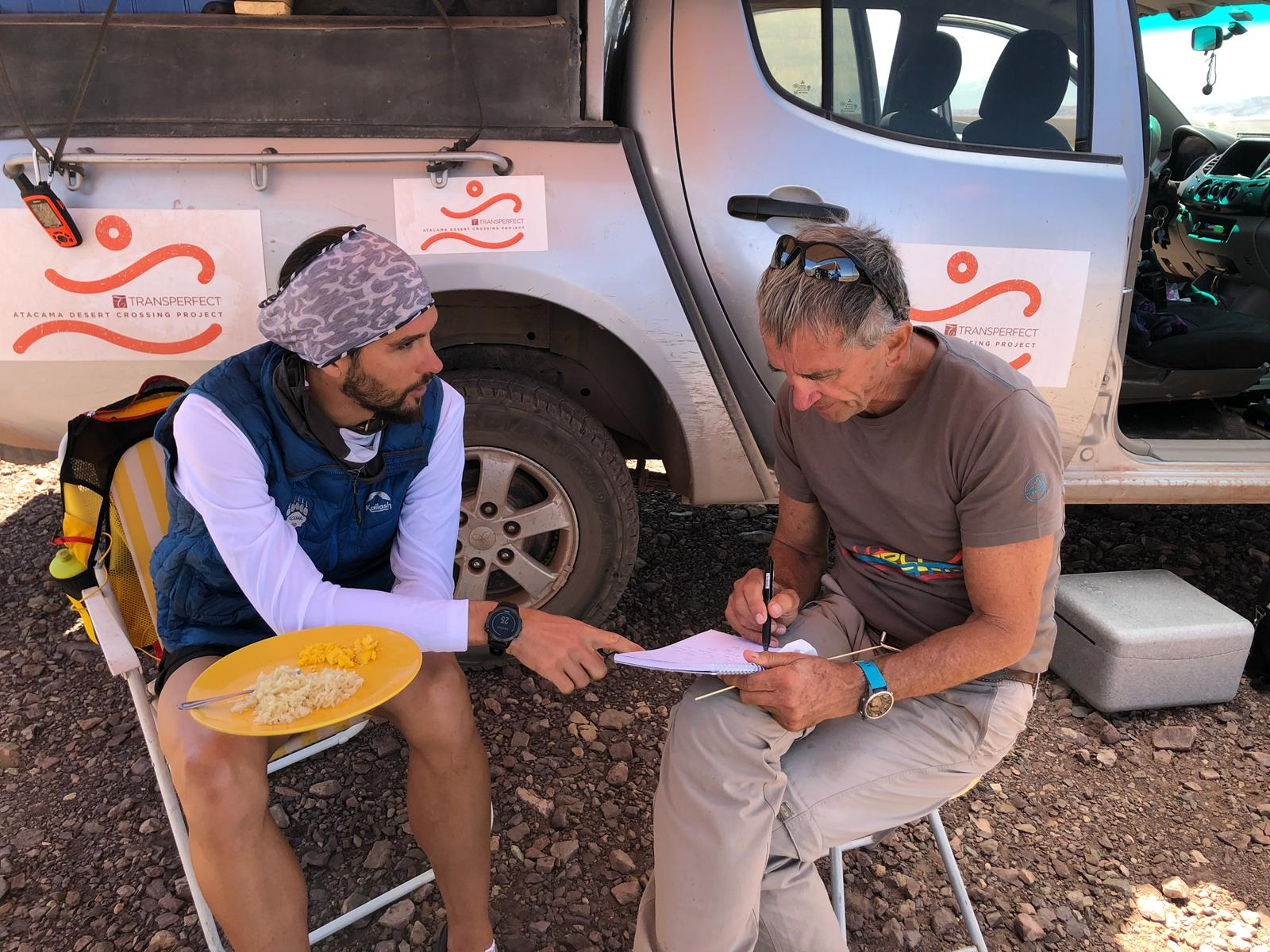 On September 15, 2018, runner Michele Graglia embarked on the TransPerfect Atacama Desert Crossing Project. The translation company sponsored Graglia, and Guinness Book is tracking him over the 700 mile UltraMarathon to watch him set a world record at 70 miles per day